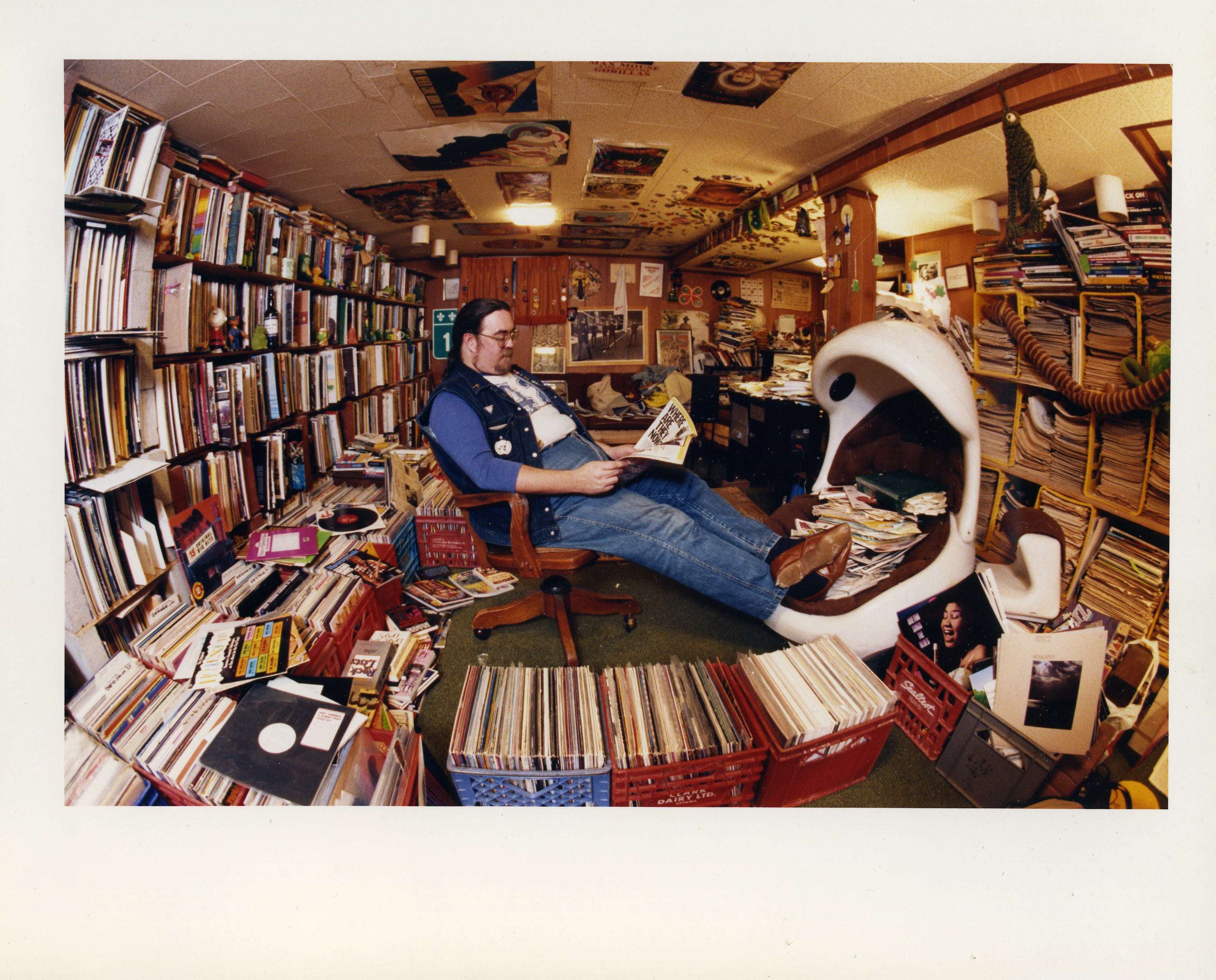 Brian Murphy's music room